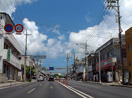 Ganeko Intersection